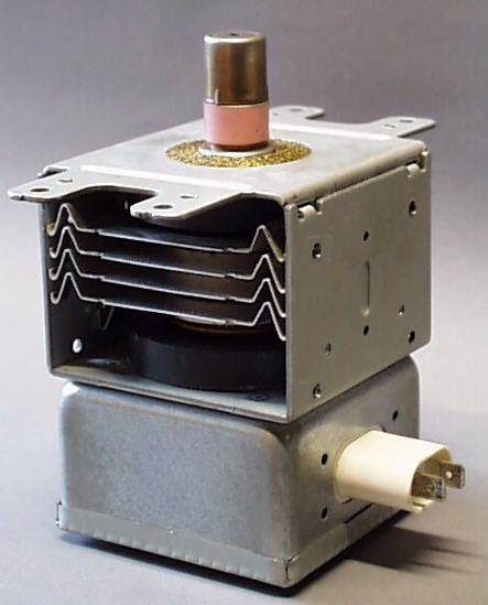 Magnetron with magnet in its mounting box - the horizontal aluminium plates aid in cooling the device by airflow from a fan